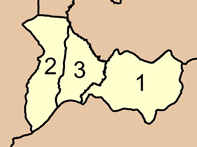 Map of Na Bon district, Nakhon Si Thammarat province, Thailand, with the communes (tambon) numbered. Na Bon (นาบอน) Thung Song (ทุ่งสง) Kaeo Saen (แก้วแสน)